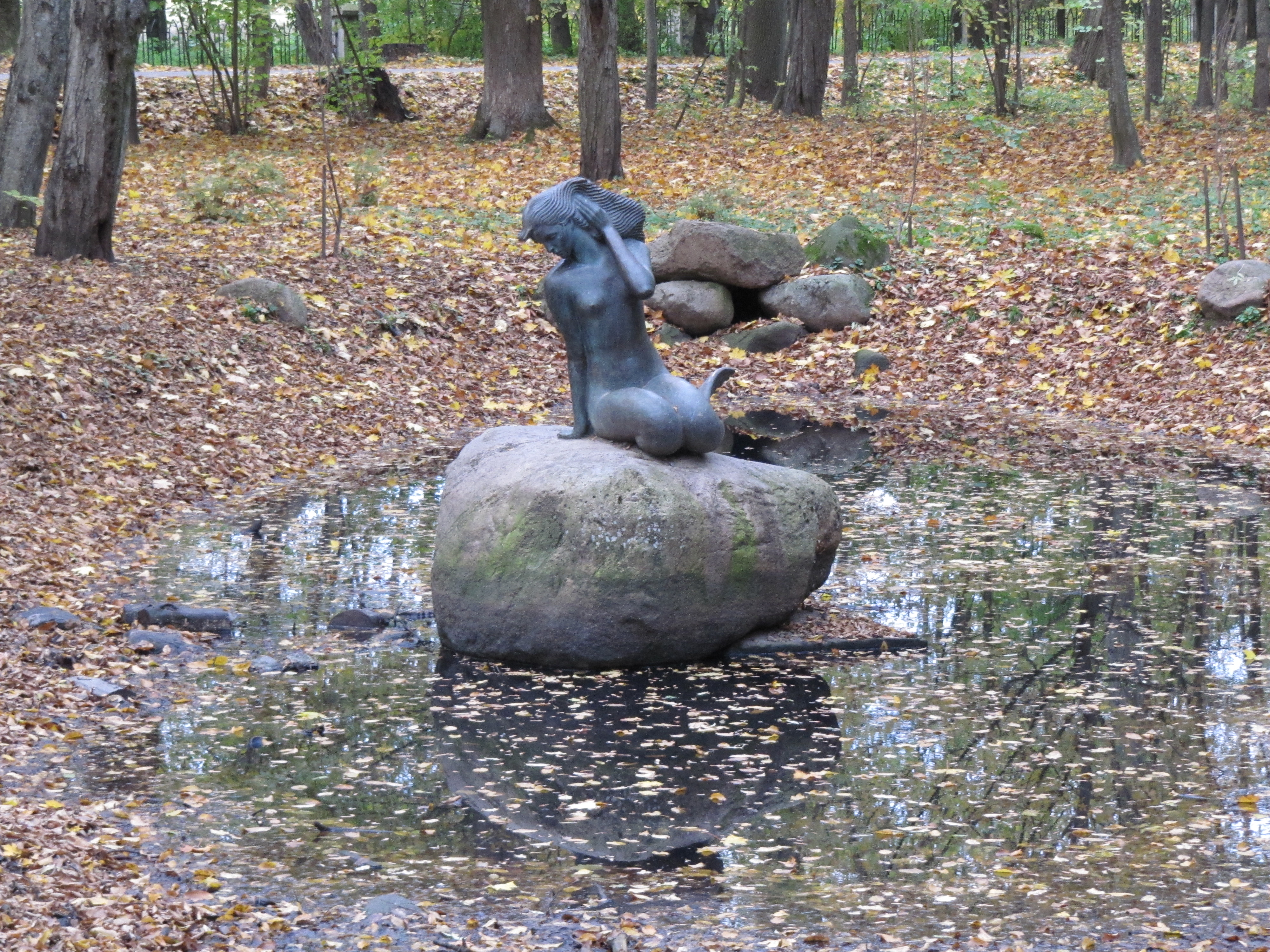 Park Area This is a photo of Belarusian heritage monument. Reference number: 610Г000466 ( WLM)